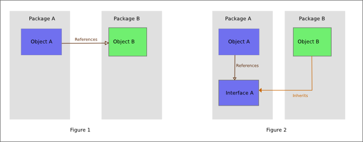 The figures 1 and 2 illustrate code with the same functionality, however in figure 2, the dependency has been inverted using an interface. The direction of dependency can be chosen to maximise code reuse, and eliminate cyclic dependencies.